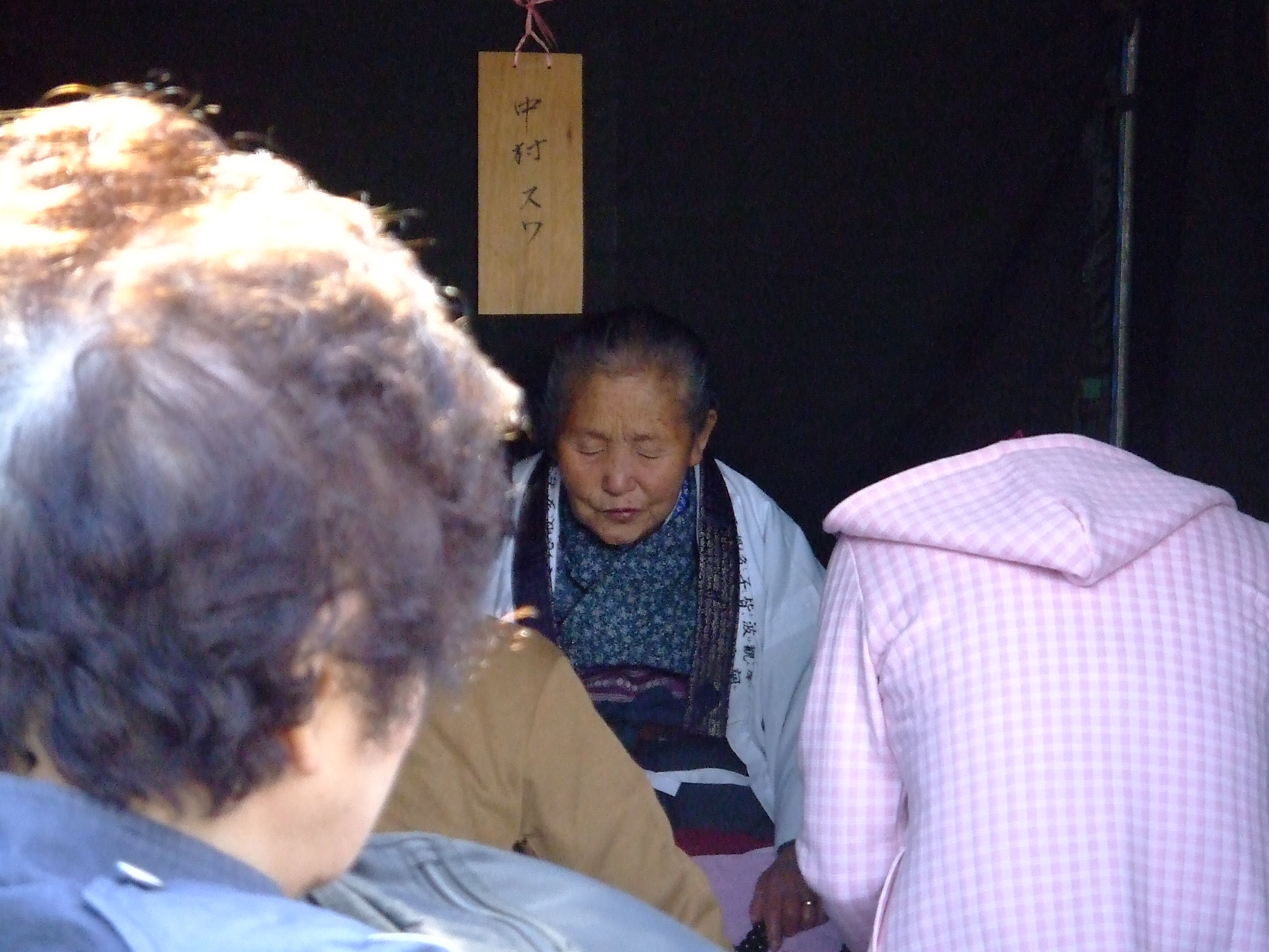 In itako at the Autumn inako festival at Osore-zan in Aomori Prefecture, Japan. I took this photo with a digital camera on 9th October 2006.